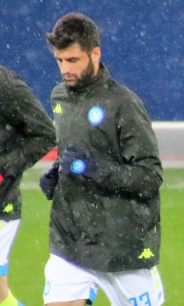 Euroleague round of 16 2nd leg